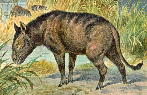 Crop of file in filename